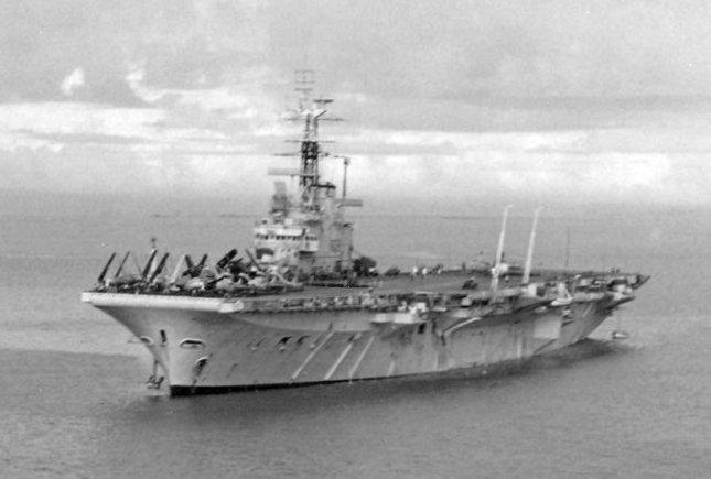 The British carrier HMS Bulwark (R08) pictured at anchor in Singapore during the SEATO exercise "Operation Oceanlink" on 4 May 1958.